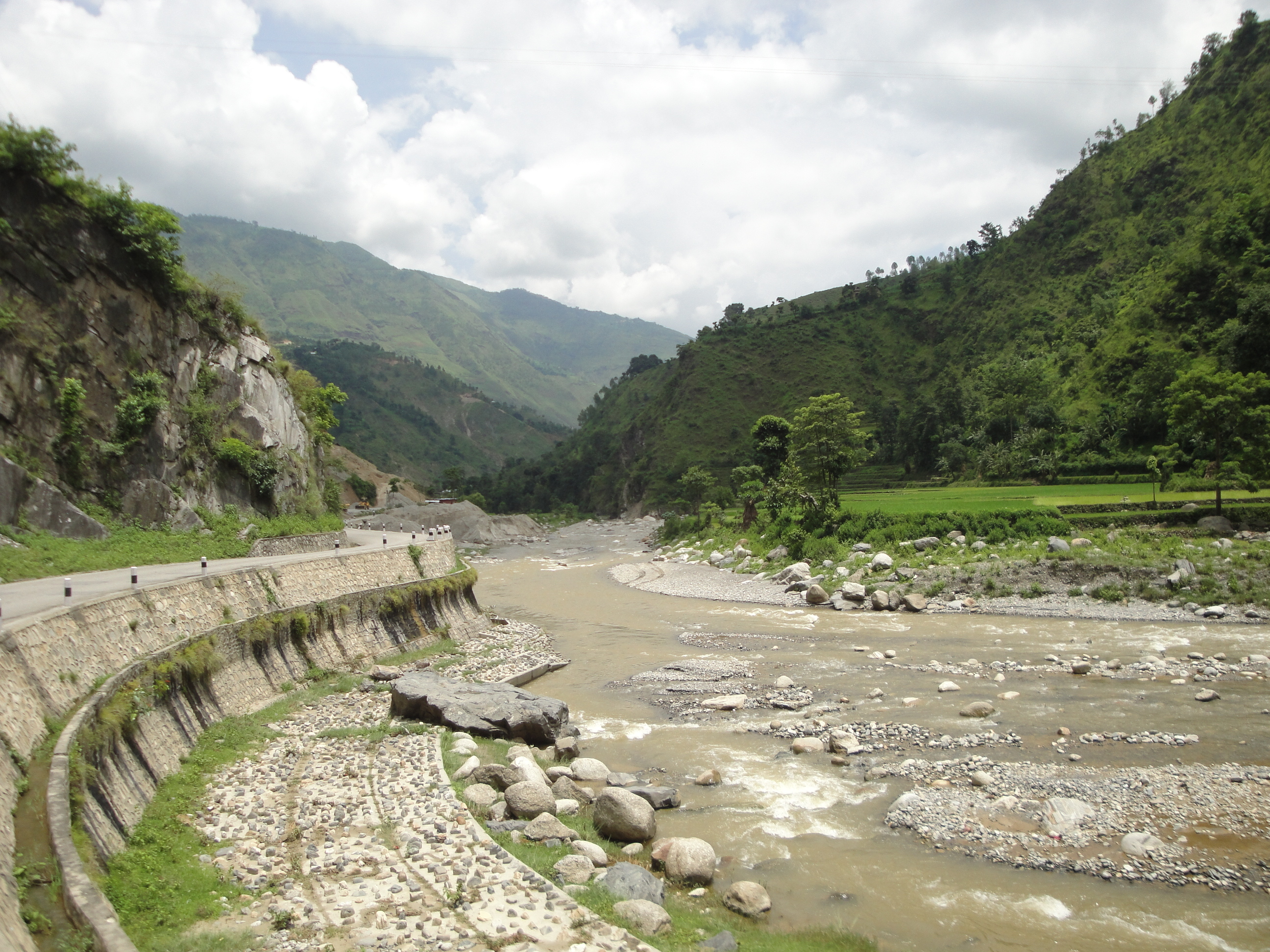 BP highway in the bank of Roshi river